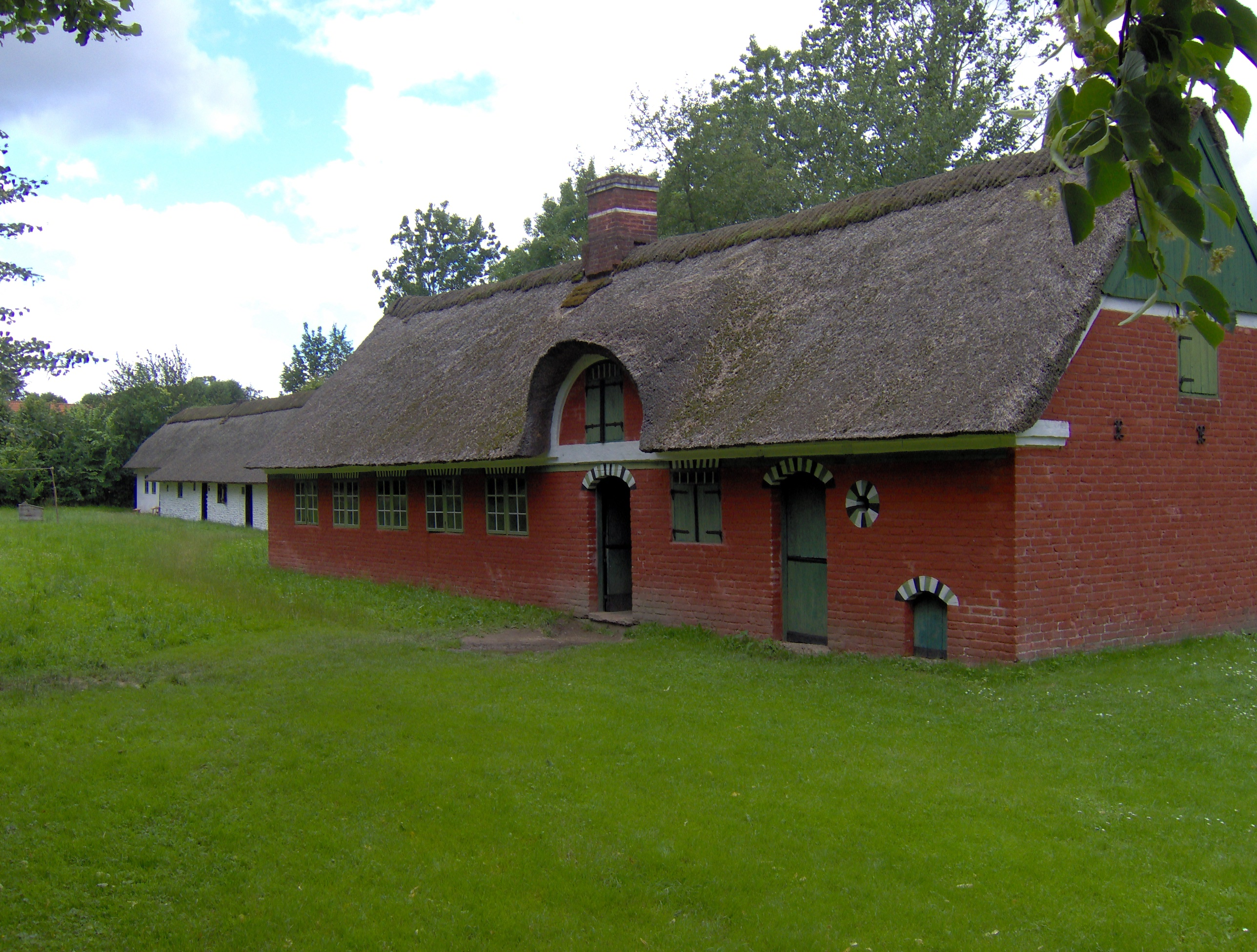 From Frilandsmuseet: Farm from Fanø.